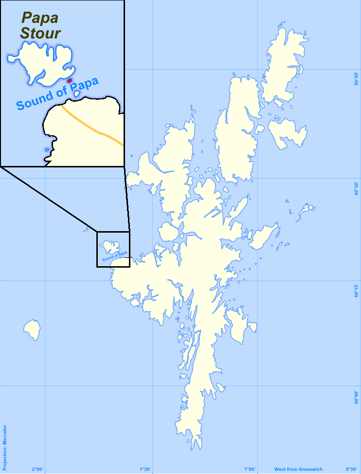 Forewick Holm, also known as Forvik highlighted on the map